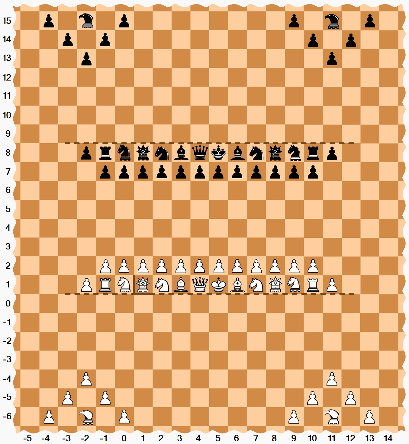 Gameboard for the chess variant "Chess on an Infinite Plane". Markings on the board help identify the (1,1) square, and identify the ranks at which pawns promote. Image is my own work. Guard and hawk icons in the image are inspired by chess piece icons by vickalan. Other chess piece icons are free-use icons from musketeerchess.